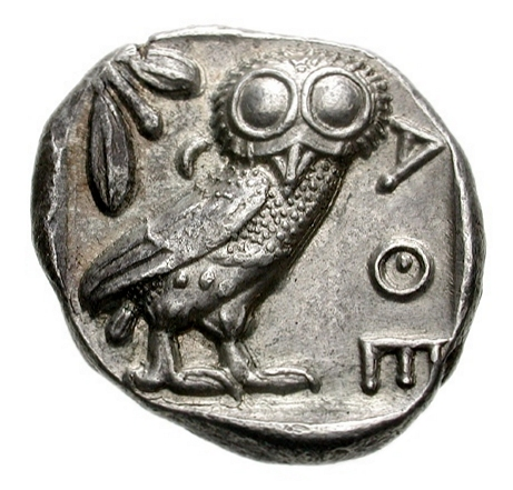 ATTICA, Athens. Circa 449-404 BC. AR Tetradrachm (22mm, 17.18 g, 8h). Helmeted head of Athena right / Owl standing right, head facing; olive sprig and crescent behind; all within incuse square. Kroll 8; SNG Copenhagen 31. EF, lightly toned. Nice metal.